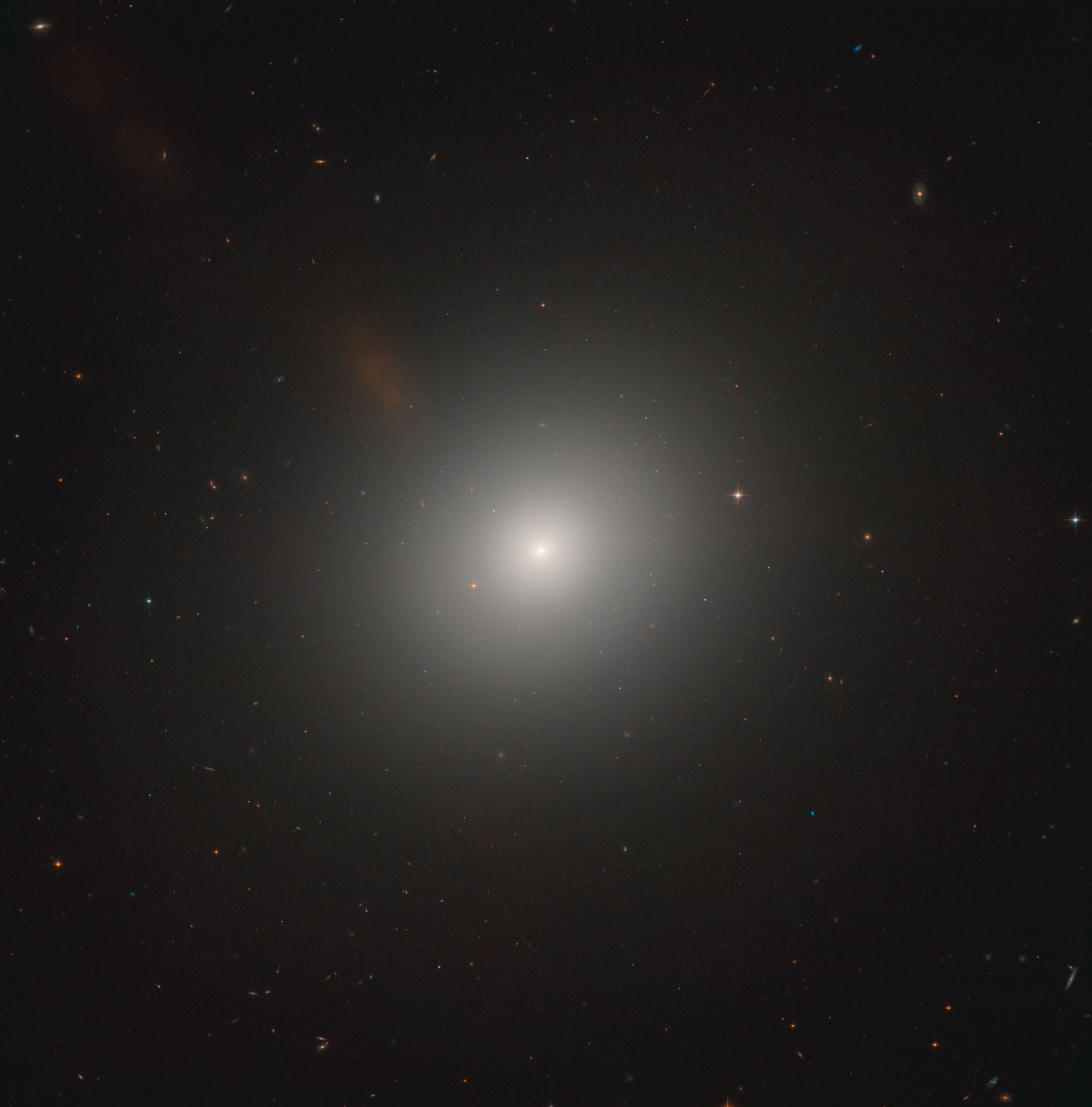 The heart of the Lion The heart of the Lion It might appear featureless and unexciting at first glance, but NASA/ESA Hubble Space Telescope observations of this elliptical galaxy — known as Messier 105 — show that the stars near the galaxy’s centre are moving very rapidly. Astronomers have concluded that these stars are zooming around a supermassive black hole with an estimated mass of 200 million Suns! This black hole releases huge amounts of energy as it consumes matter falling into it and causing the centre to shine far brighter than its surroundings. This system is known as an active galactic nucleus. Hubble also surprised astronomers by revealing a few young stars and clusters in Messer 105, which was thought to be a “dead” galaxy incapable of star formation. Messier 105 is now thought to form roughly one Sun-like star every 10 000 years. Star-forming activity has also been spotted in a vast ring of hydrogen gas encircling both Messier 105 and its closest neighbour, the lenticular galaxy NGC 3384. Messier 105 was discovered in 1781, lies about 30 million light-years away in the constellation of Leo (The Lion), and is the brightest elliptical galaxy within the Leo I galaxy group. Credit: ESA/Hubble & NASA, C. Sarazin et al. Coordinates Position (RA): 10 47 49.63 Position (Dec): 12° 34' 55.76" Field of view: 6.31 x 6.39 arcminutes Orientation: North is 127.8° right of vertical Colours & filters Band Wavelength Telescope Optical g 475 nm Hubble Space Telescope ACS Optical z 850 nm Hubble Space Telescope ACS Optical g 475 nm Hubble Space Telescope ACS Optical Z 850 nm Hubble Space Telescope ACS .